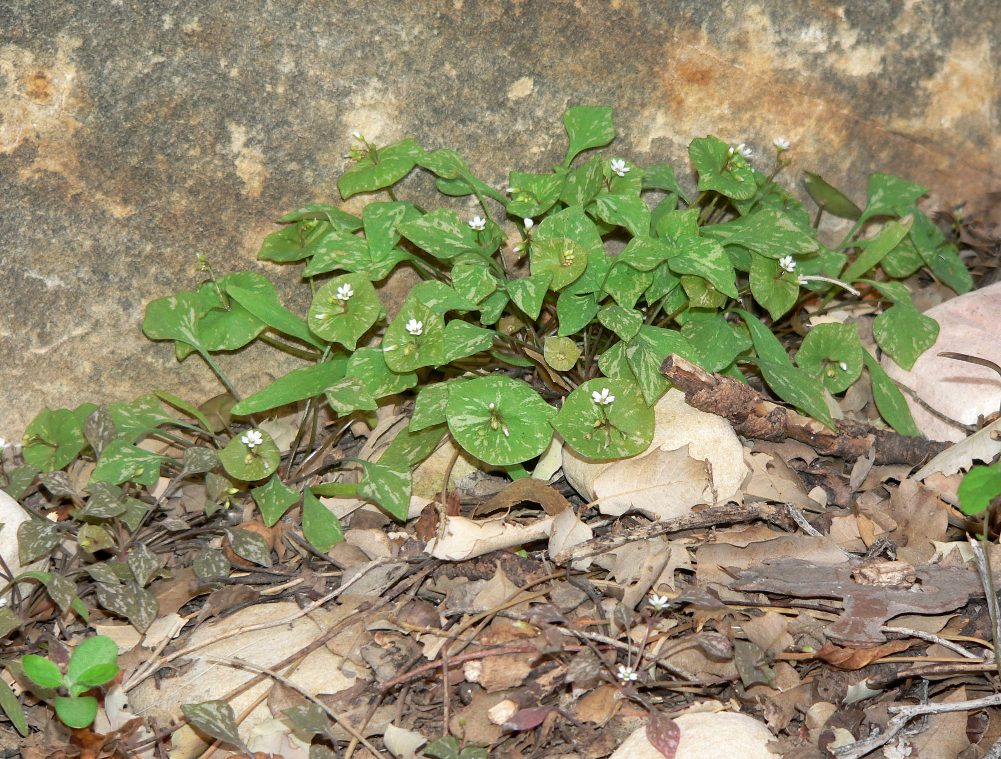 Claytonia perfoliata subsp. intermontana in Icebox Canyon, Red Rock Canyon, Spring Mountains, southern Nevada (elev. about 1400 m)